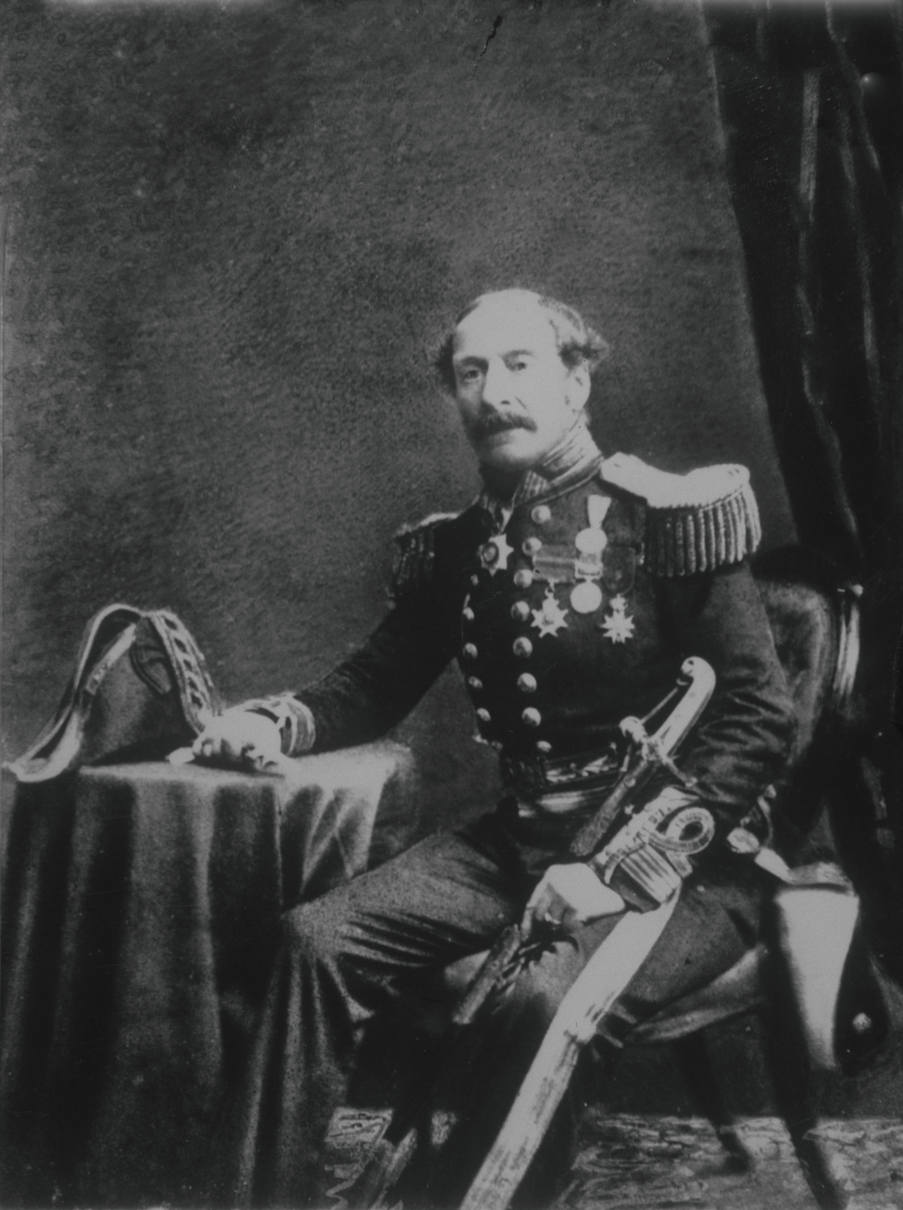 Lord George Paulet (1803–1879), the third son of Charles Paulet, 13th Marquess of Winchester became captain of the Royal Navy 28 December 1841. He put Hawaii under military occupation for six months of 1843. He was promoted to Rear Admiral 21 July 1856, retired in 12 March 1867 and died 22 November 1879.